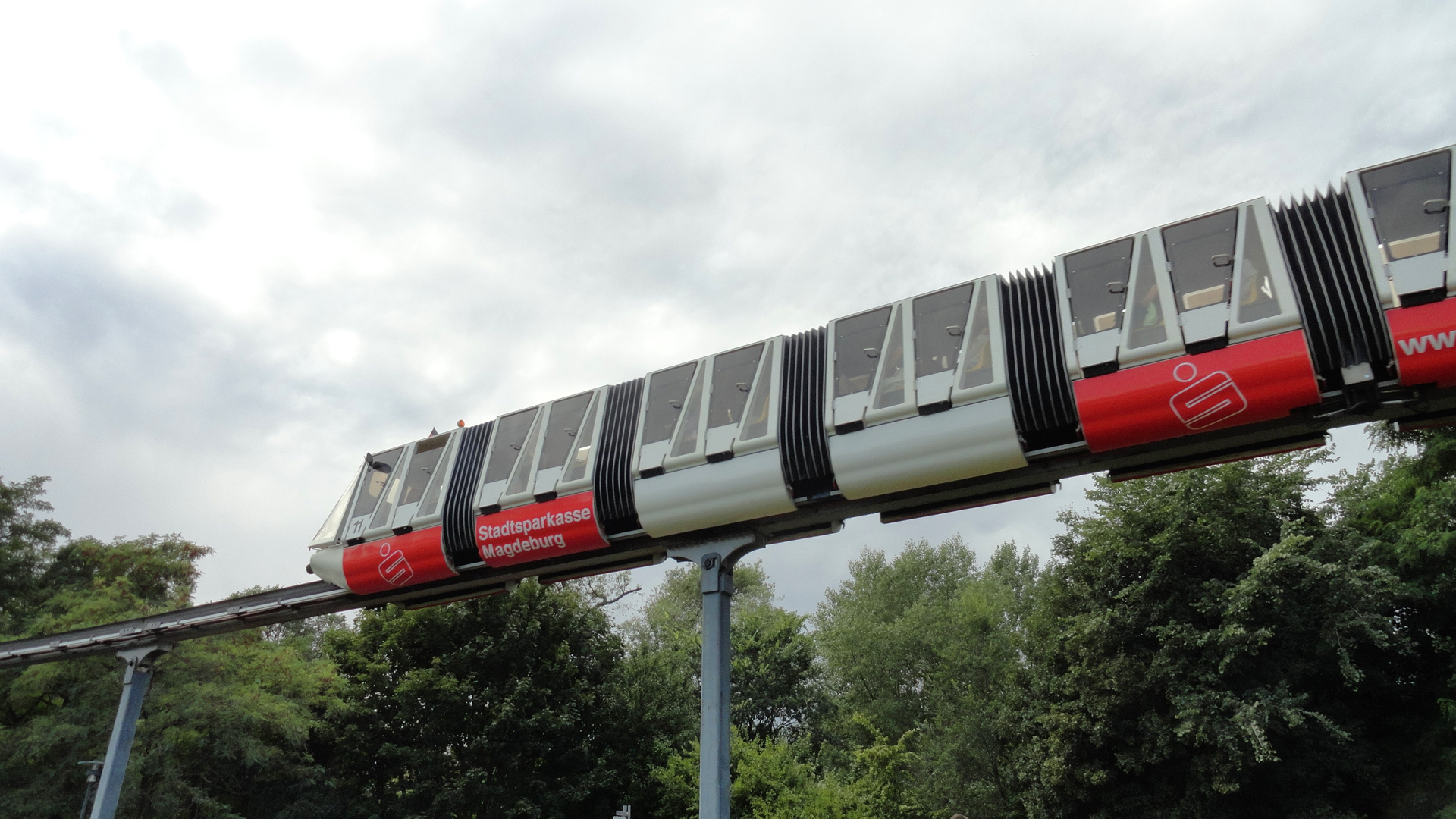 Monorail in the Elbauenpark